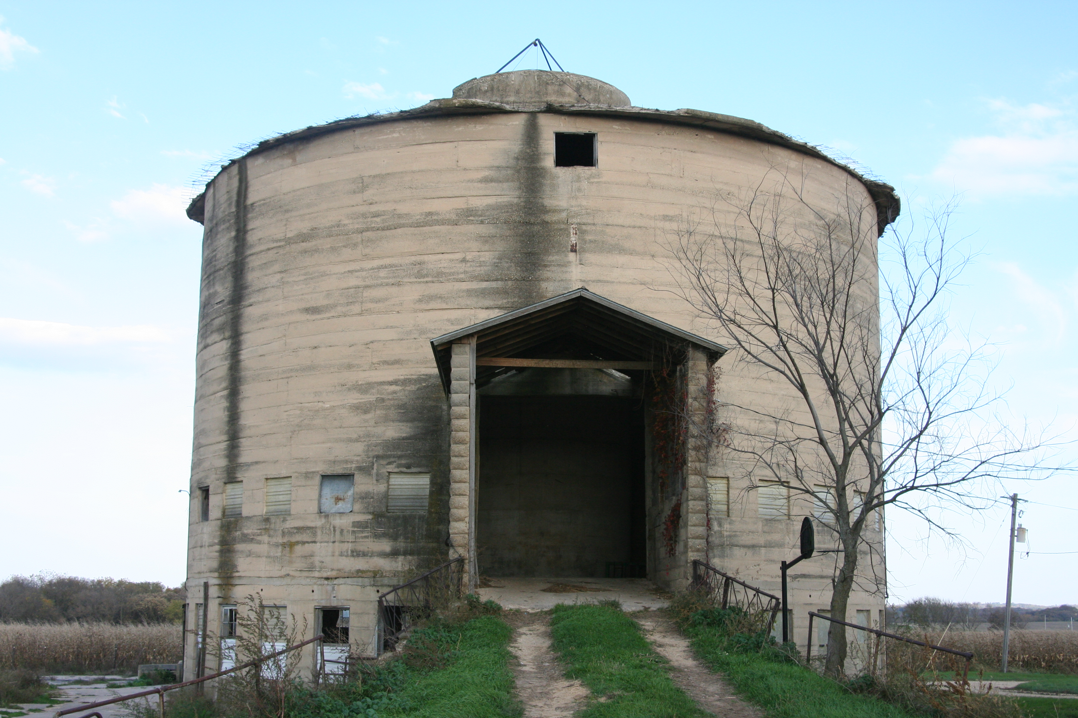 Exterior shot of the Felker Round Barn in Mt. Morris Township, Mt. Morris, Illinois, USA.